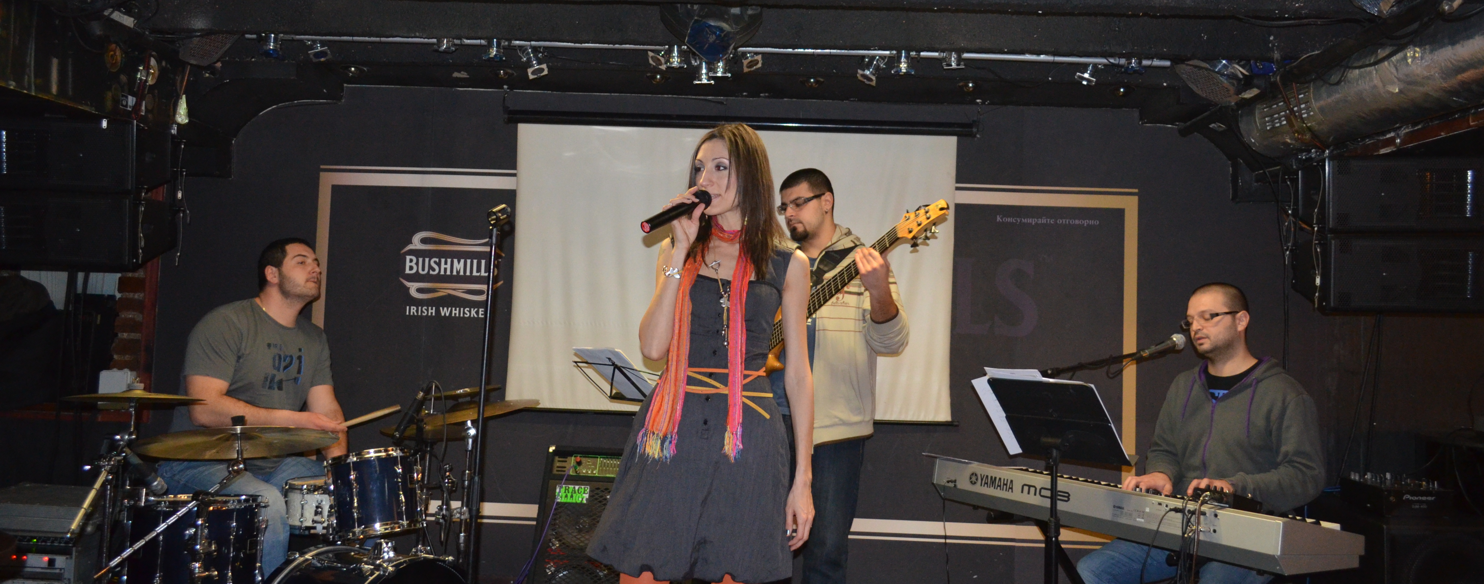 Music Station Project @ Petnoto